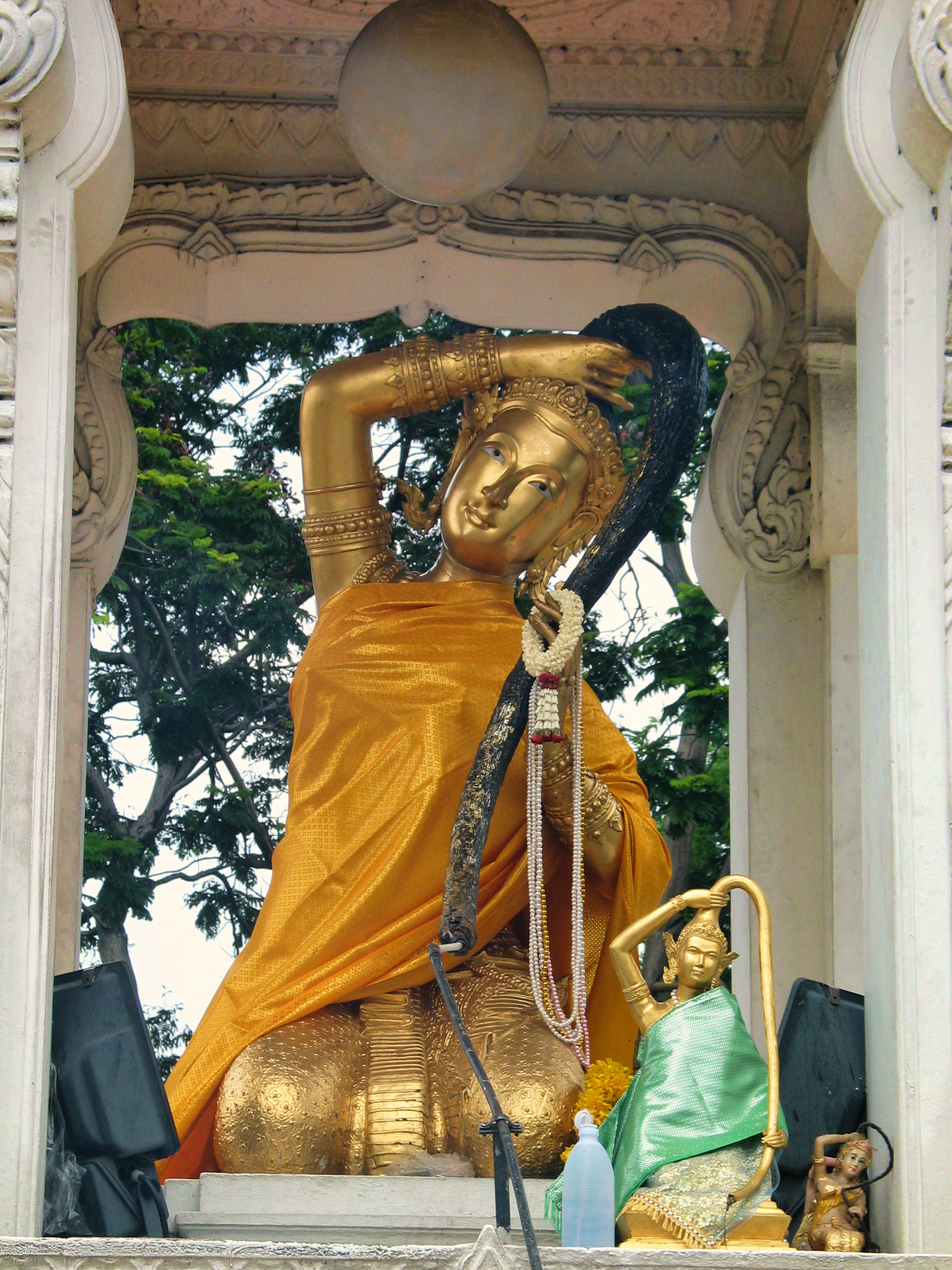 U-Thok-Than statue (Phra Mae Thorani) at the northeastern corner of Sanam Luang, Bangkok